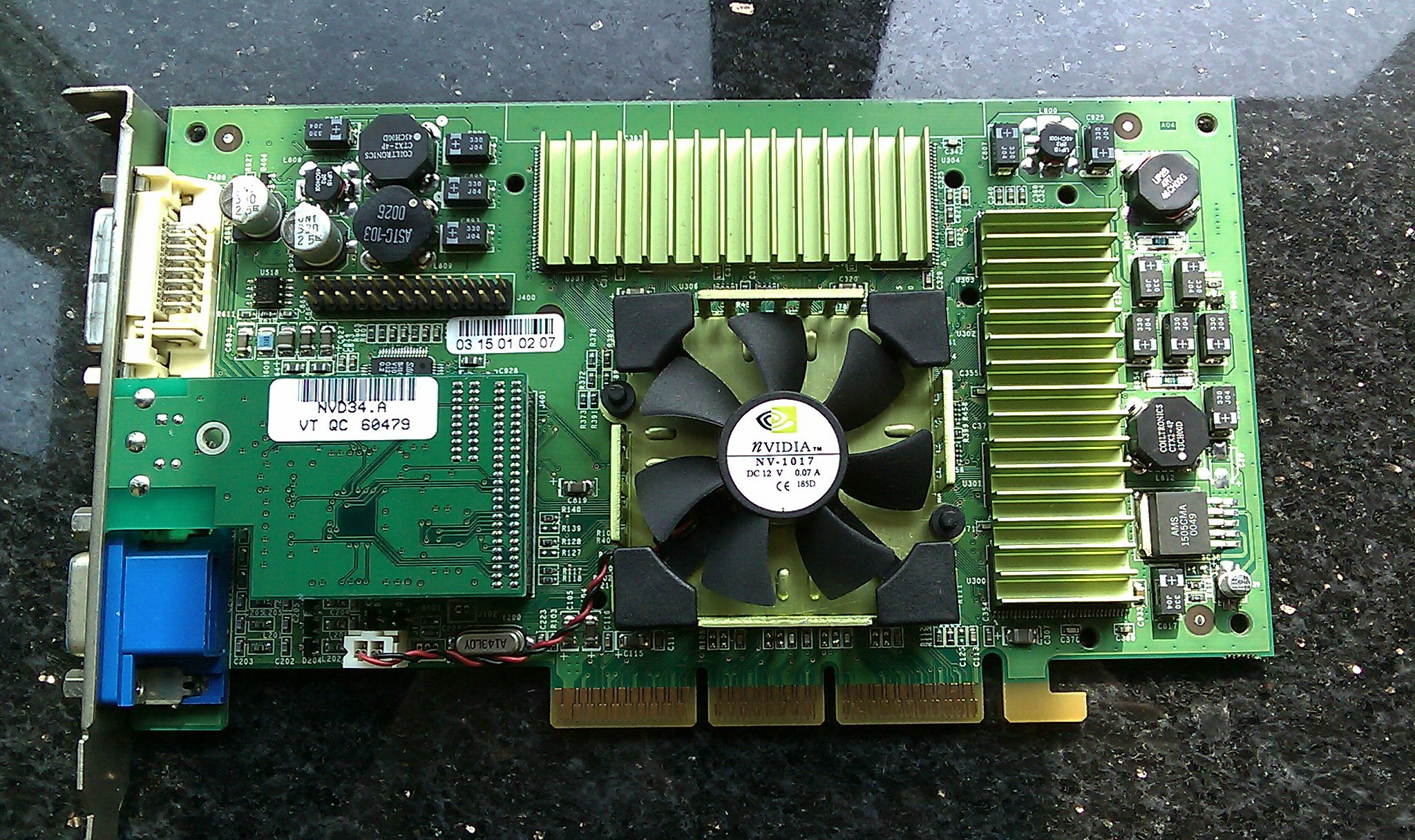 NVIDIA Quadro2 Pro ELSA GLoria III Graphic card